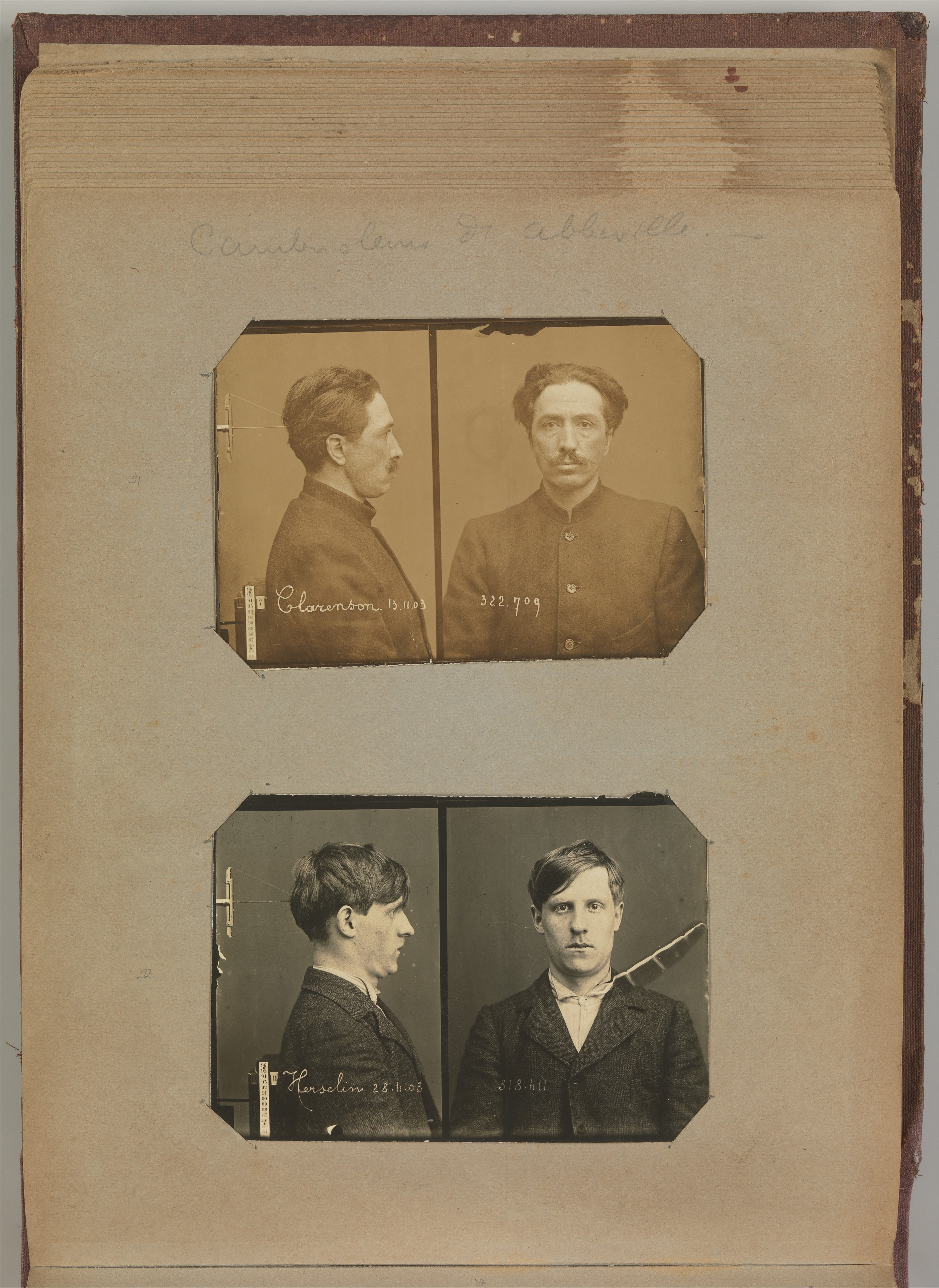 Alphonse Bertillon, the chief of criminal identification for the Paris police department, developed the mug shot format and other photographic procedures used by police to register criminals. Although the images in this extraordinary album of forensic photographs were made by or under the direction of Bertillon, it was probably assembled by a private investigator or secretary who worked at the Paris prefecture. Photographs of the pale bodies of murder victims are assembled with views of the rooms where the murders took place, close-ups of objects that served as clues, and mug shots of criminals and suspects. Made as part of an archive rather than as art, these postmortem portraits, recorded in the deadpan style of a police report, nonetheless retain an unsettling potency.